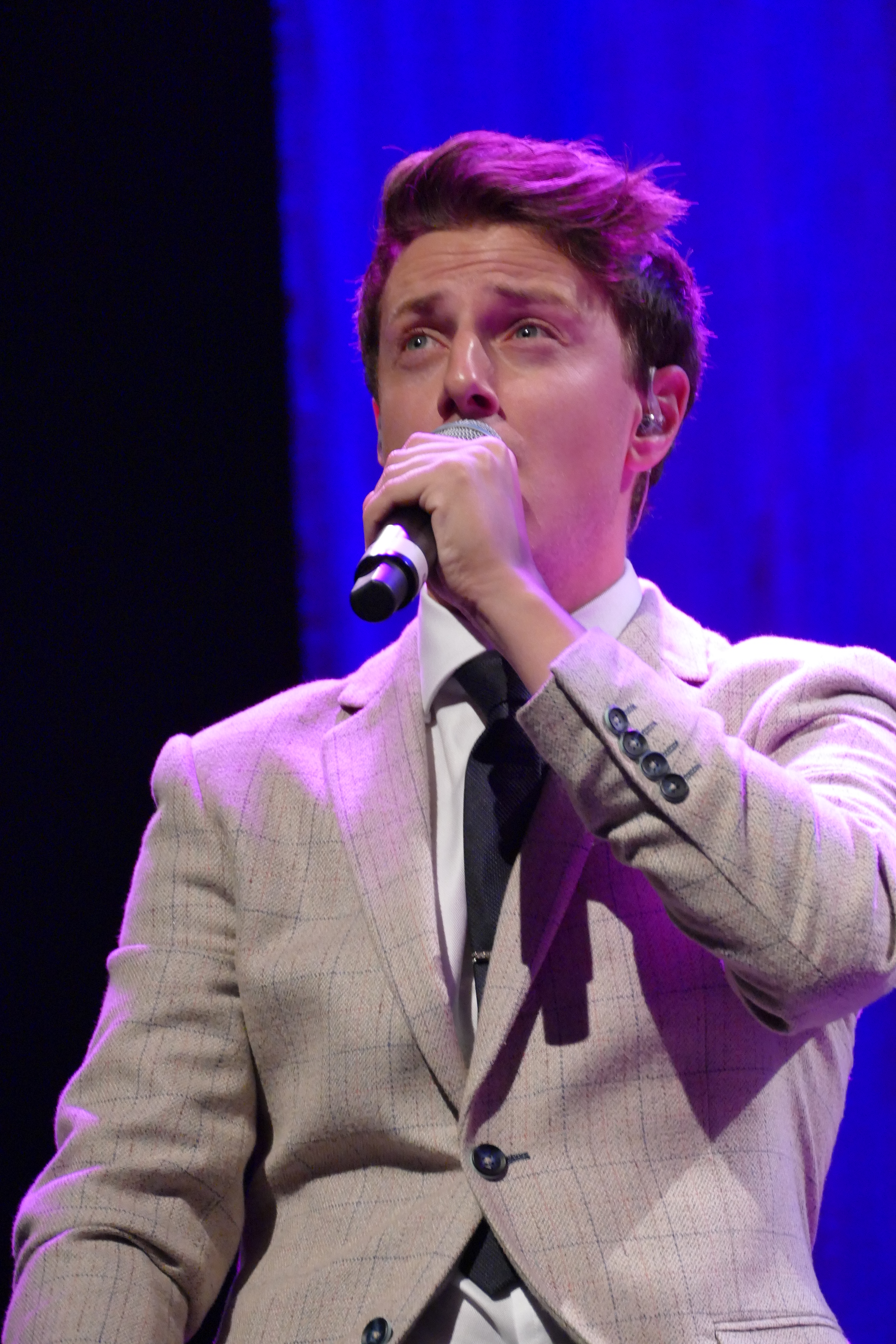 This photo was taken at the G4 Live tour at Kings Lynn 11 Sept 2018